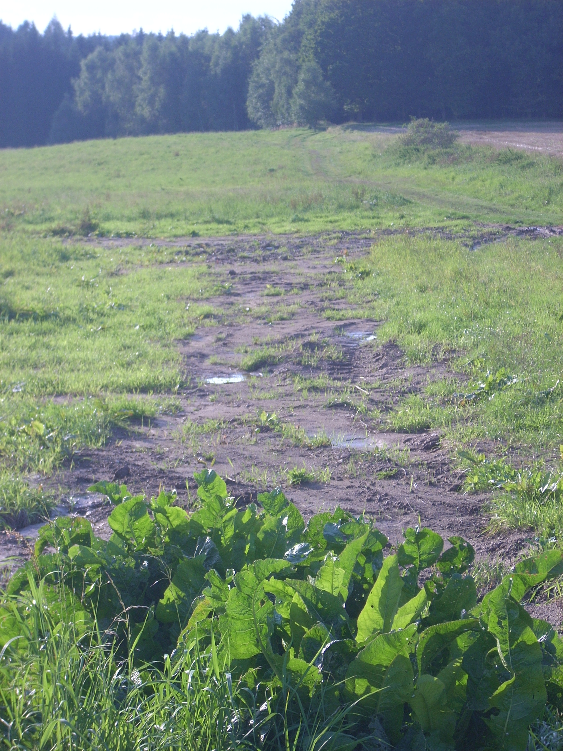 Meadow Budínka, Dobronín (Jihlava District)